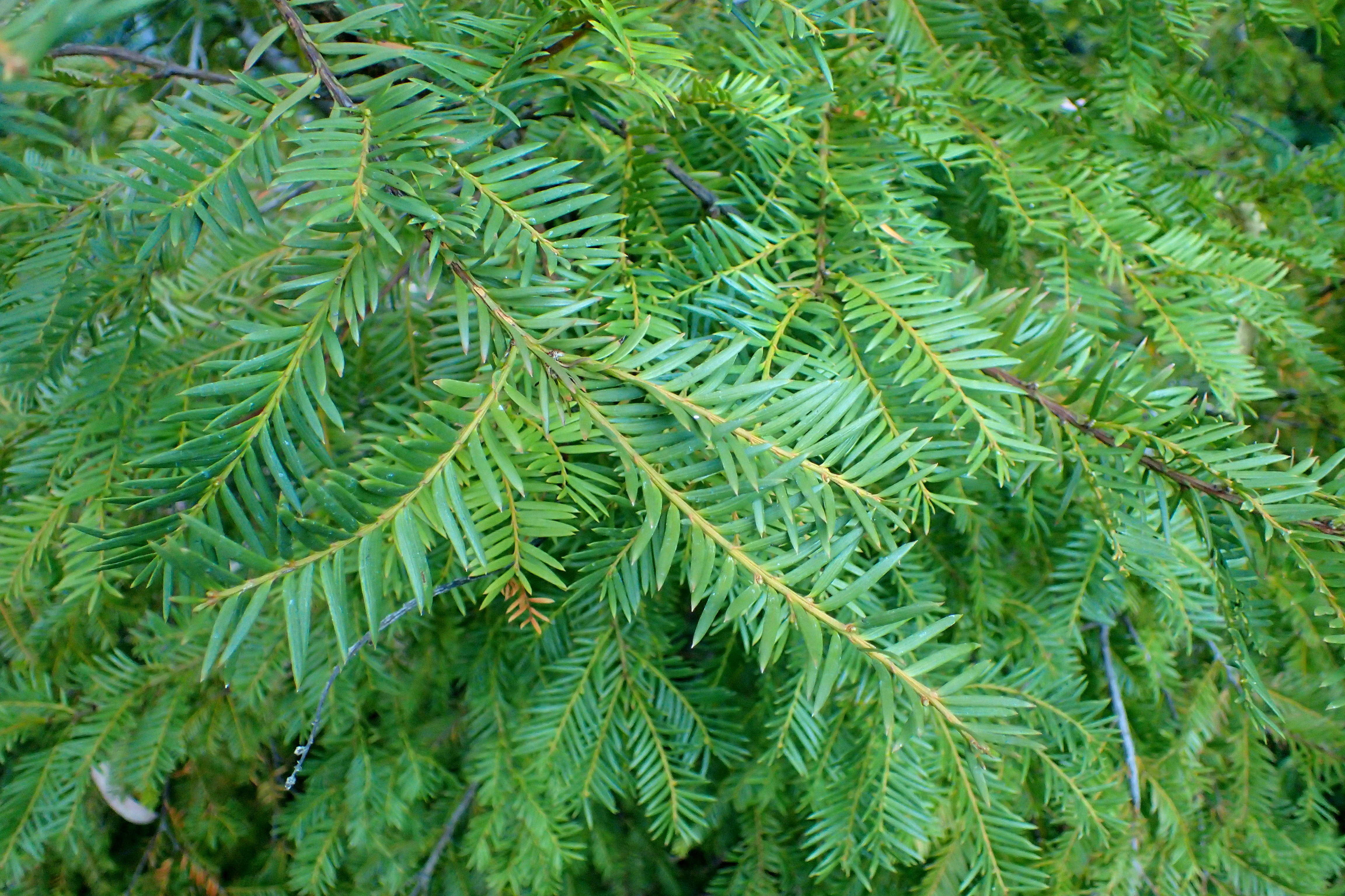 Taxus wallichiana in the San Francisco Botanical Garden